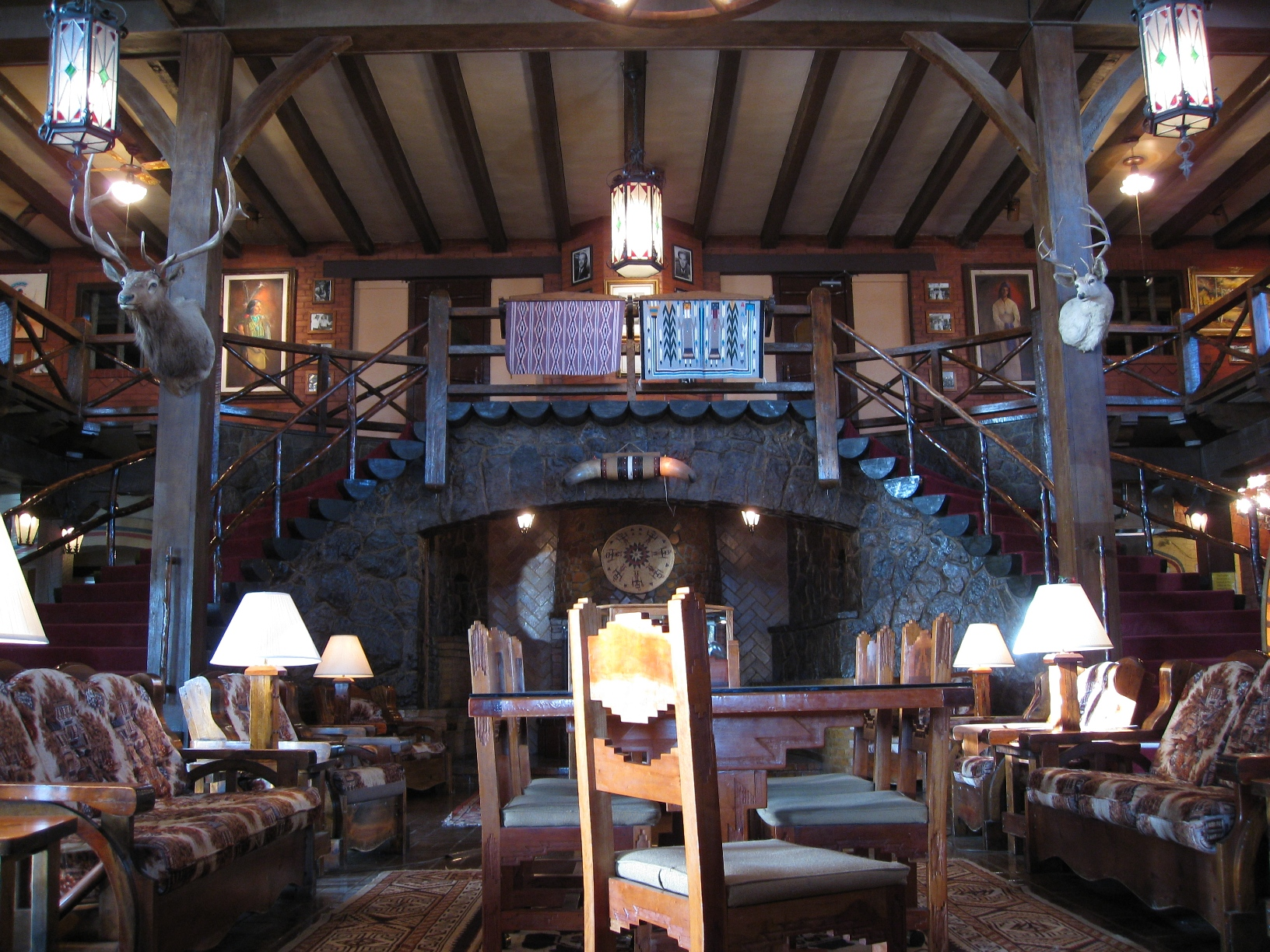 El Rancho Hotel interior, Gallup NM